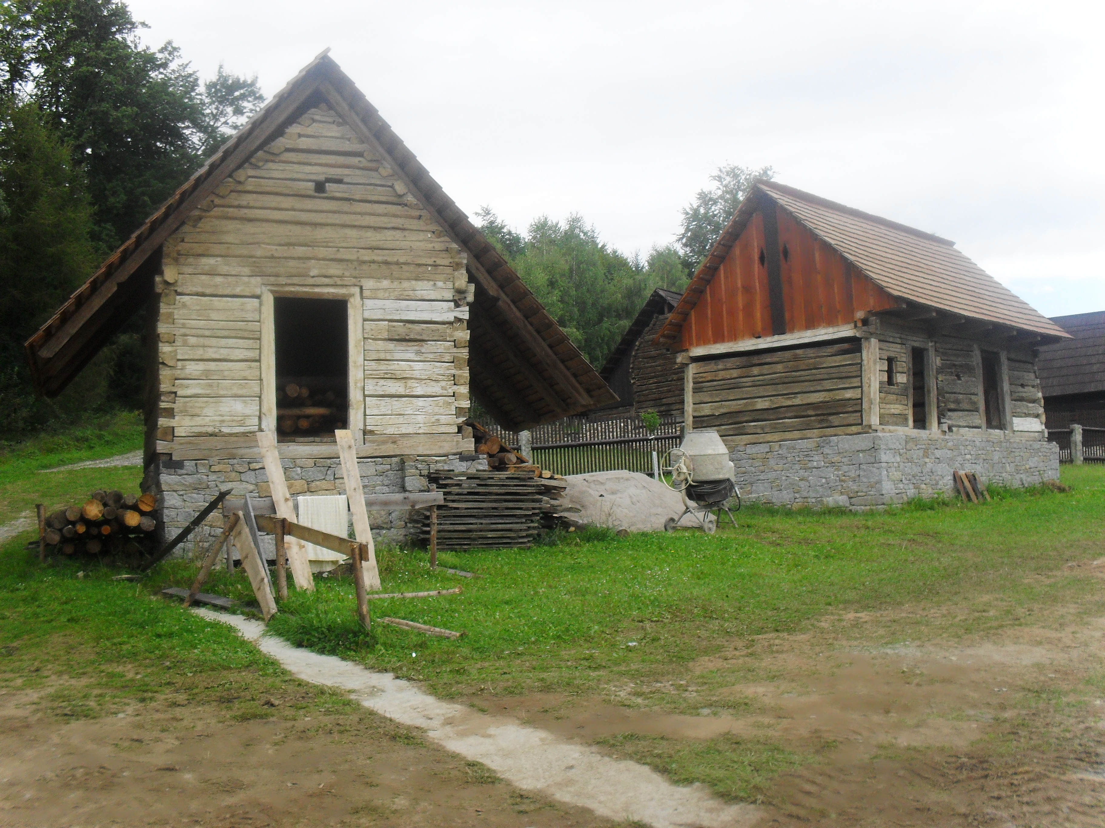 CHANOVICE - Exposition of historic architecture